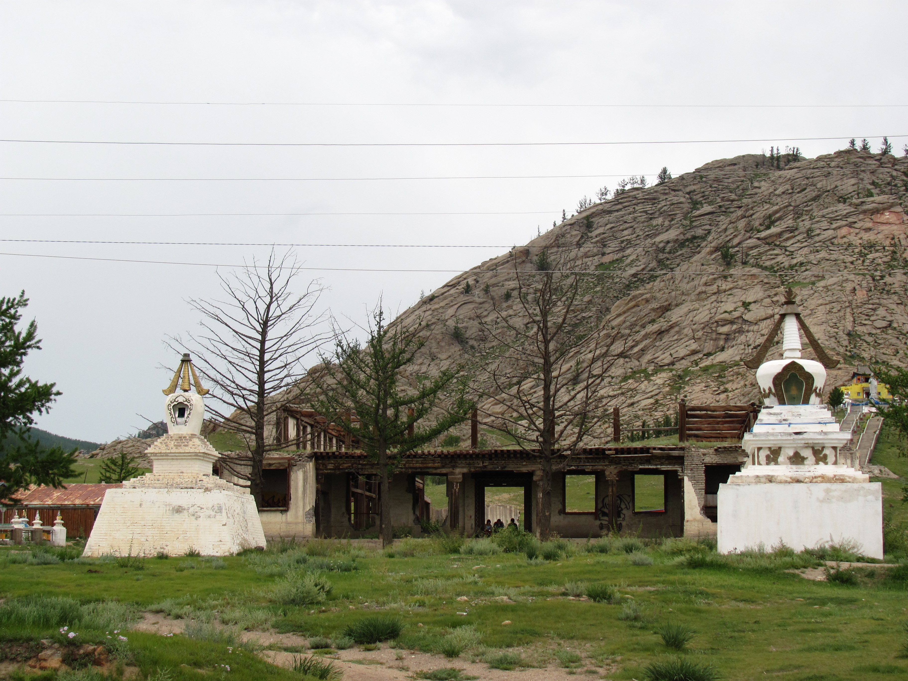 Ruins of the Monastery, Tsetserleg, Mongolia.